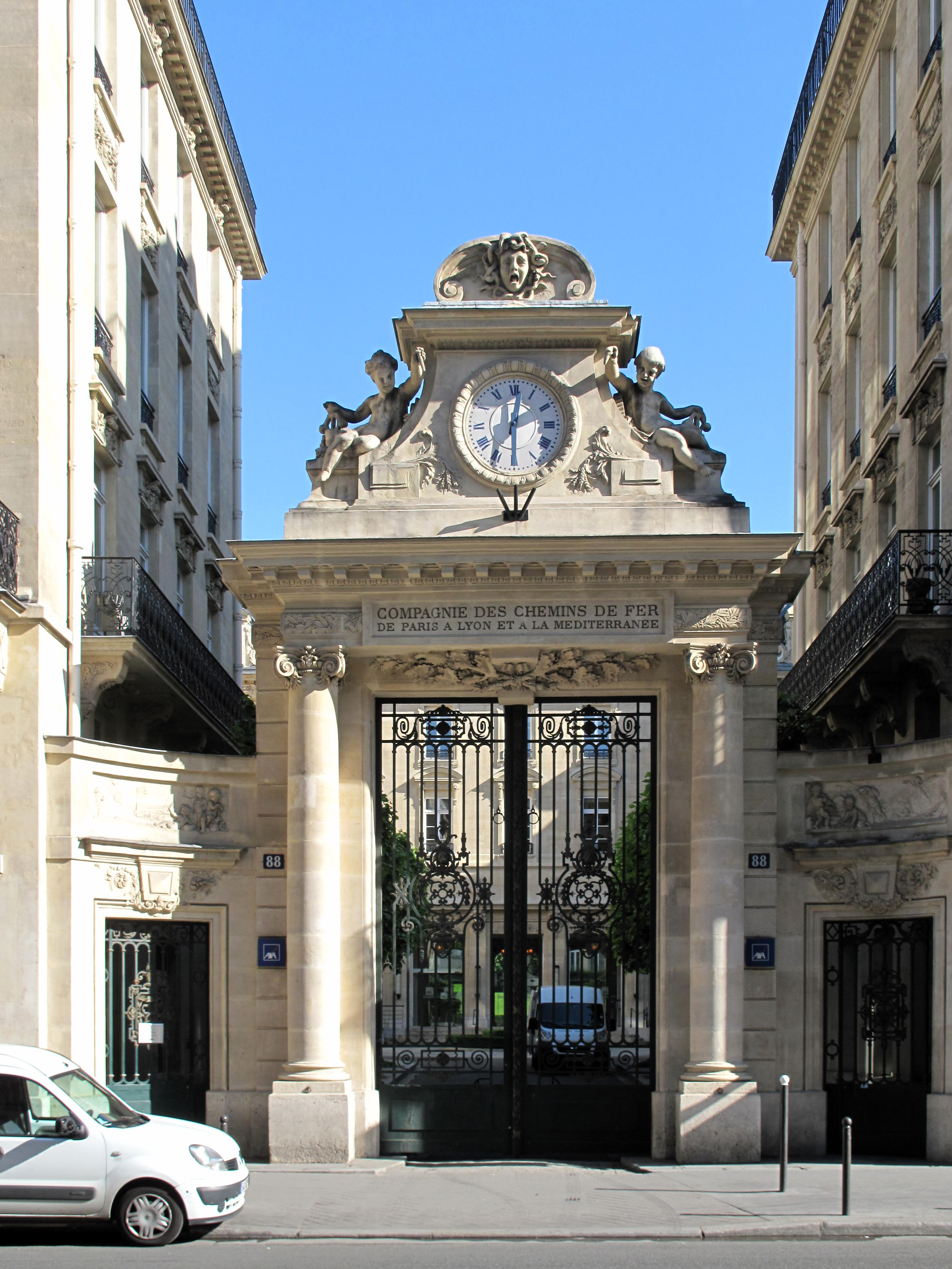 Regional direction of SNCF (=french railways) : 88, rue Saint-Lazare, Paris. Above the portal, the name of the forme company Paris-Lyon-Méditerranée (PLM)